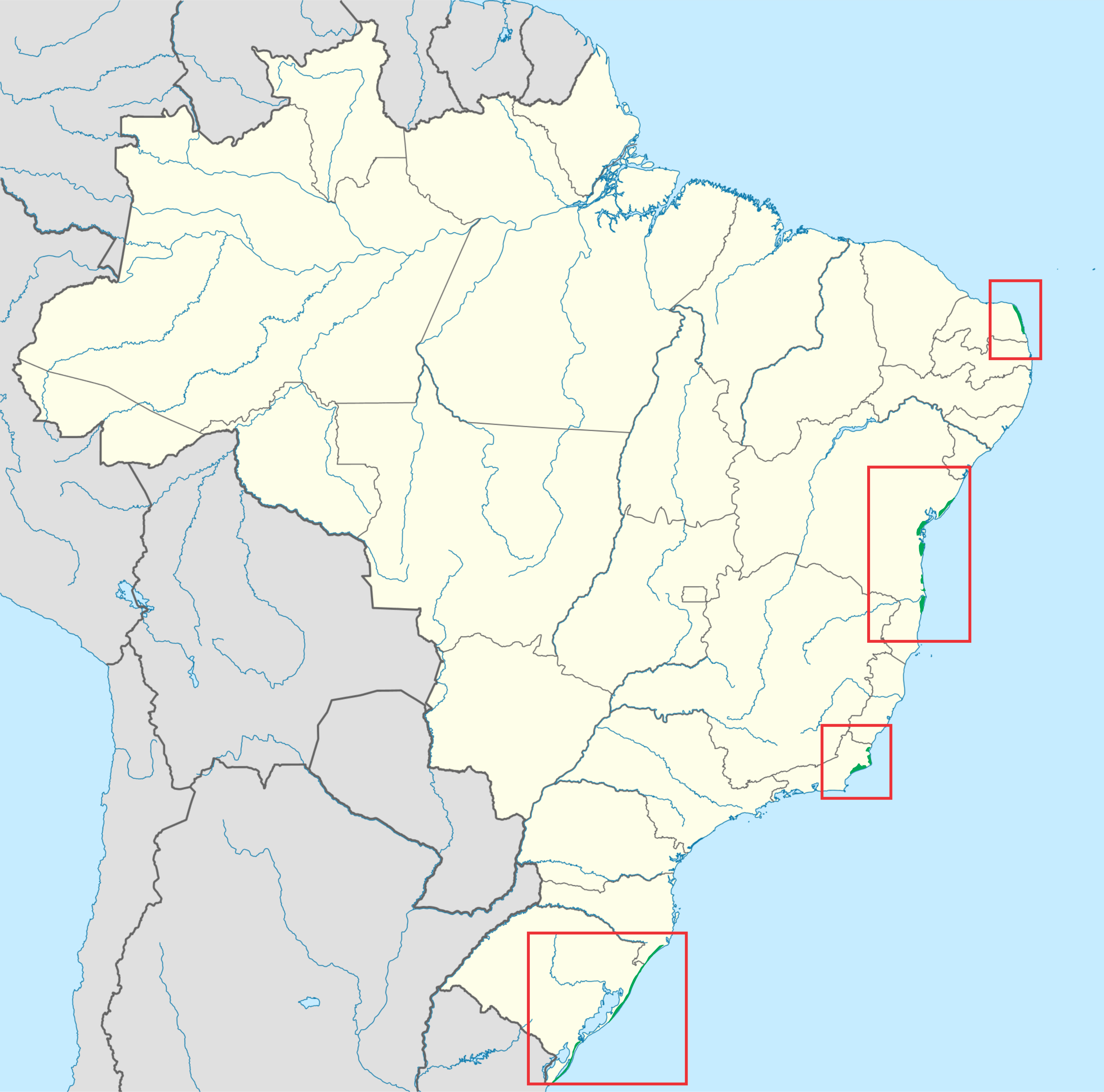 Approximate area of the Atlantic Coast restingas ecoregion as delineated by WWF. The red squares indicate the restinga patches regions.